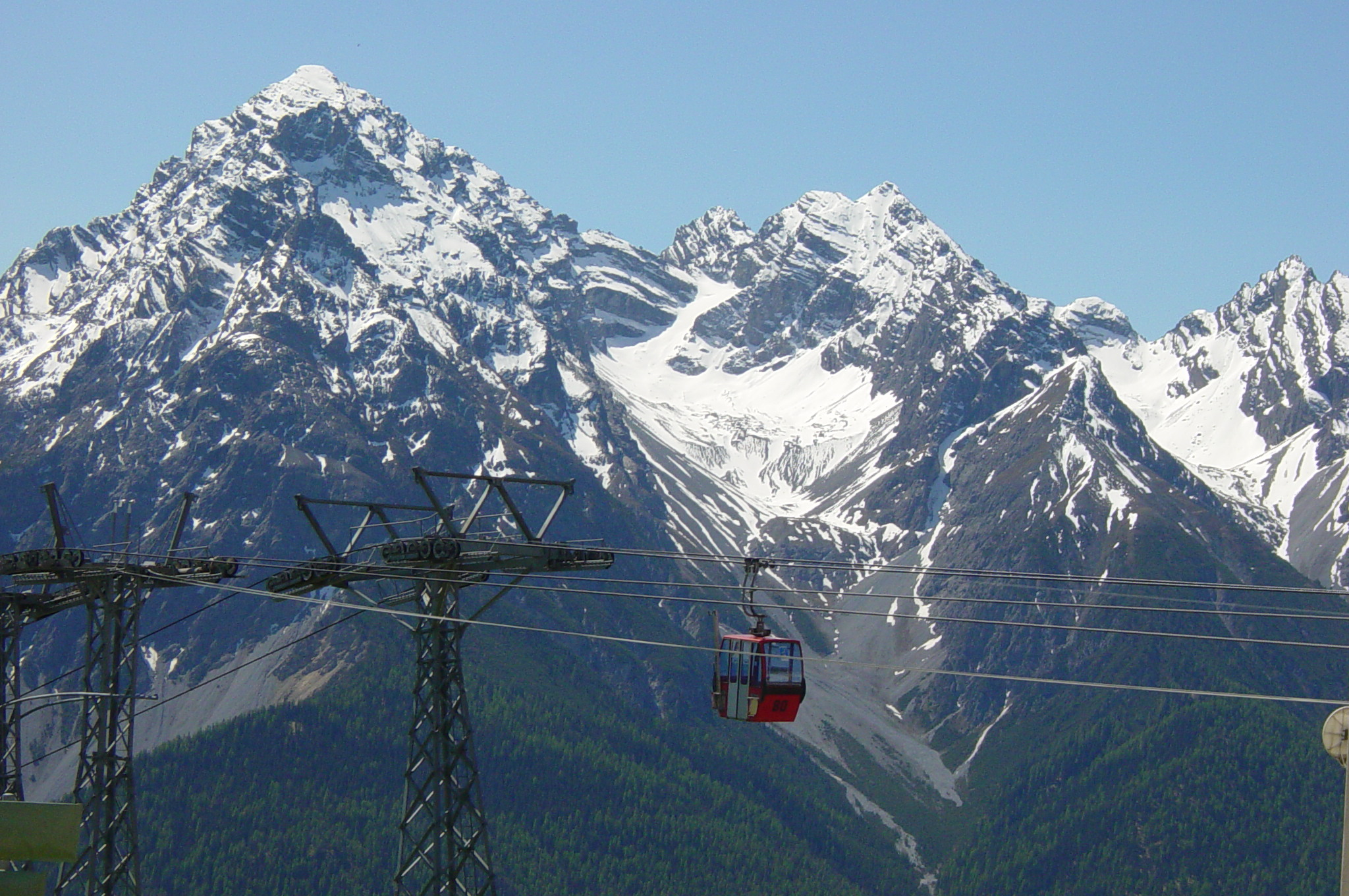 Cable Car in Motta Naluns above Scuol (Piz Pisoc mountain - left)